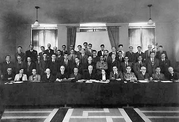 Participants of the 8th Solvay Conference on Physics in Brussels 1948 1st row: John Douglas Cockcroft, Marie-Antoinette Tonnelat, Erwin Schrödinger, Owen Willans Richardson, Niels Bohr Wolfgang Pauli, William Lawrence Bragg, Lise Meitner, Paul Dirac, Hendrik Anthony Kramers, DeDonder, Heitler, Jules-Émile Verschaffelt; 2nd row: Scherrer, Stahel, Kelin, Blackett, Dee, Bloch, Otto Frisch, Rudolf Peierls, Bhabha, (? Charles Glover Barkla ?) J. Robert Oppenheimer, Occhialini, Powell, Casimir, de Hemptinne; 3rd row: Kipfer, Auger, Perrin, Serber, Rosenfeld, Ferretti, Moller, Leprince-Ringuet, 4th row: Balasse, Flamache, Grove, Goche, Demeur, Ferrera, Vanisacker, VanHove, Teller, Goldschmidt, Marton, Dilworth, Prigogine, Geheniau, Henriot, Vanstyvendael